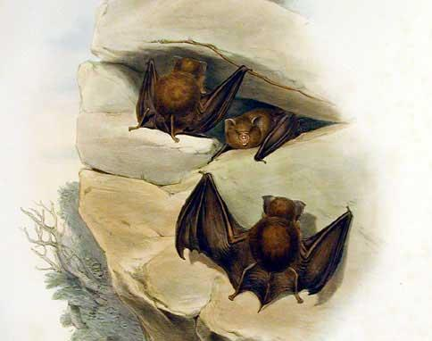 Hipposideros cervinus (orig. Rhinolophus cervinus)